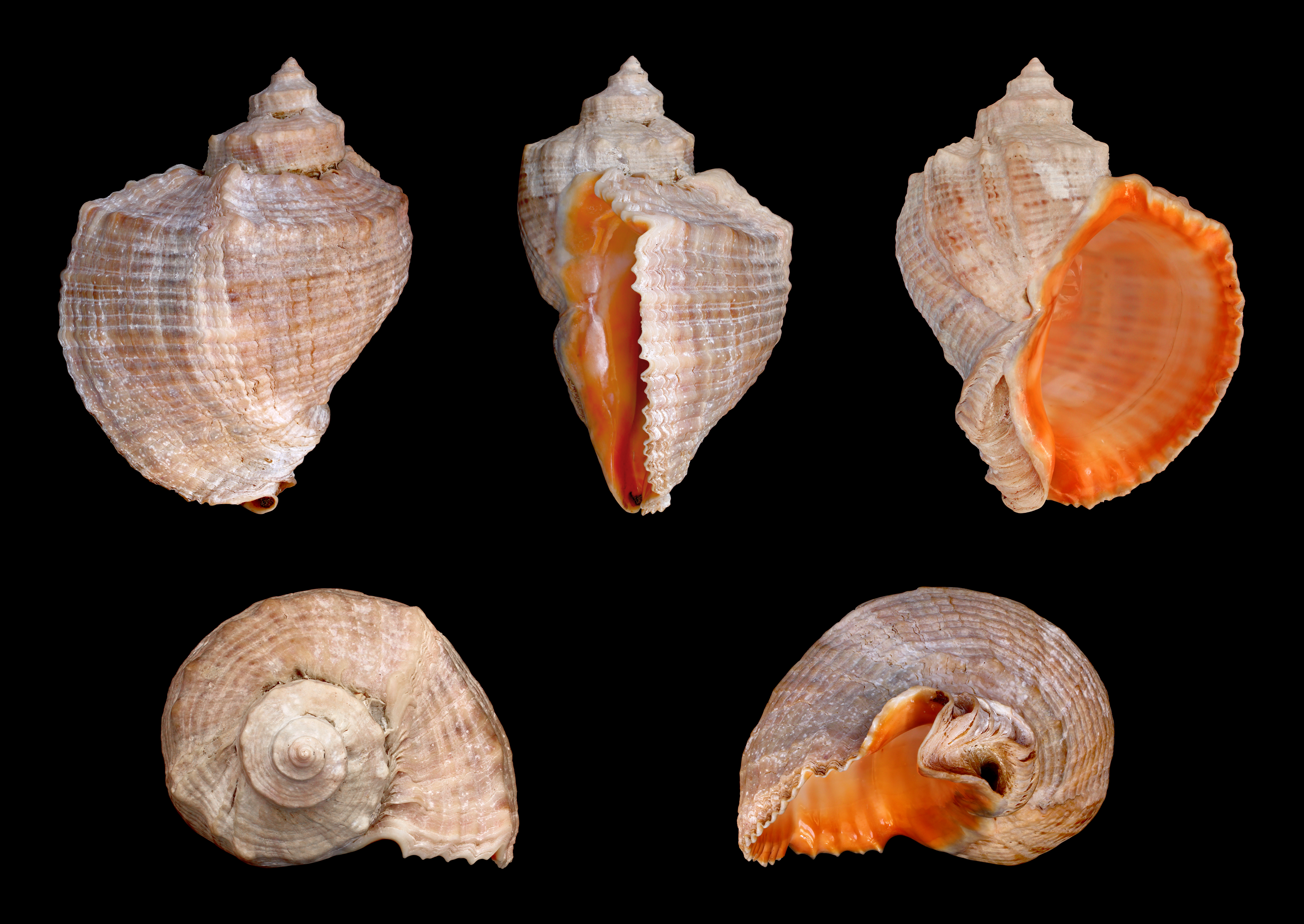 Thomas's Rapa Whelk, Length 10.0 cm; Originating from the Black Sea near Sevastopol, Ukraine; ex coll. George Chernilevsky, therefore not geocoded. Dorsal, lateral (right side), ventral, back, and front view.